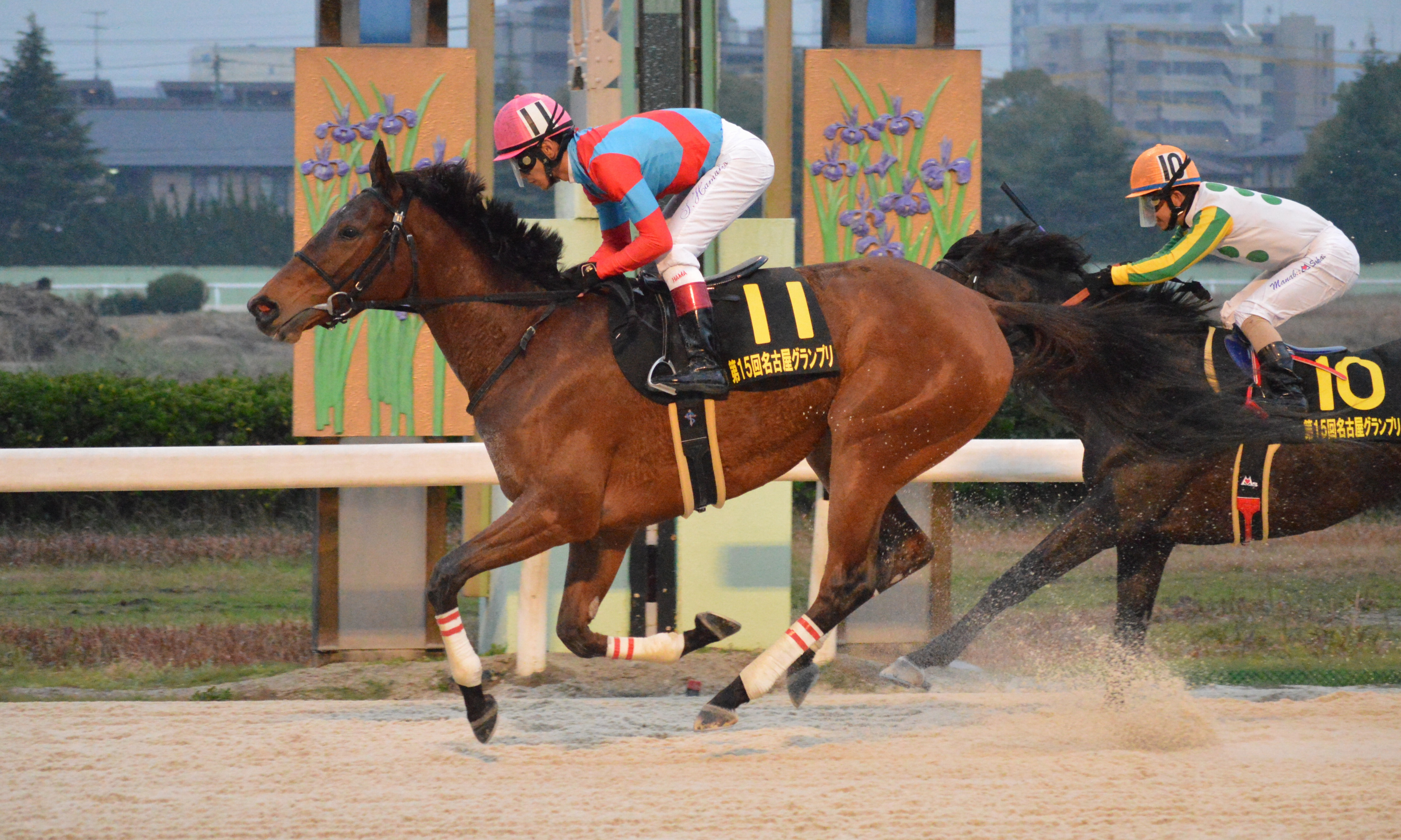 Japanese race horse Amour Briller at Nagoya racecourse. Nagoya (JPN) 23 Dec 2015Nagoya Grand Prix (Local Grade 2) (Dirt) (3yo+) 1m4 1/2f Standard RankHorse NameOddsAgeWgtJockeyTrainer1stNagoya Grand Prix(USA)11/5F48-9Suguru HamanakaMikio Matsunaga2ndNihonpiro Ours (JPN)32/5H89-2Manabu SakaiYuki Ohashi Others are omitted. (12 horses entered in a race.)